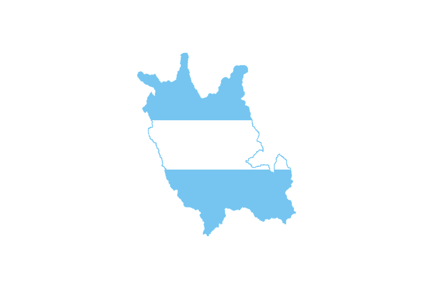 Flag of Andrés Avelino Cáceres region